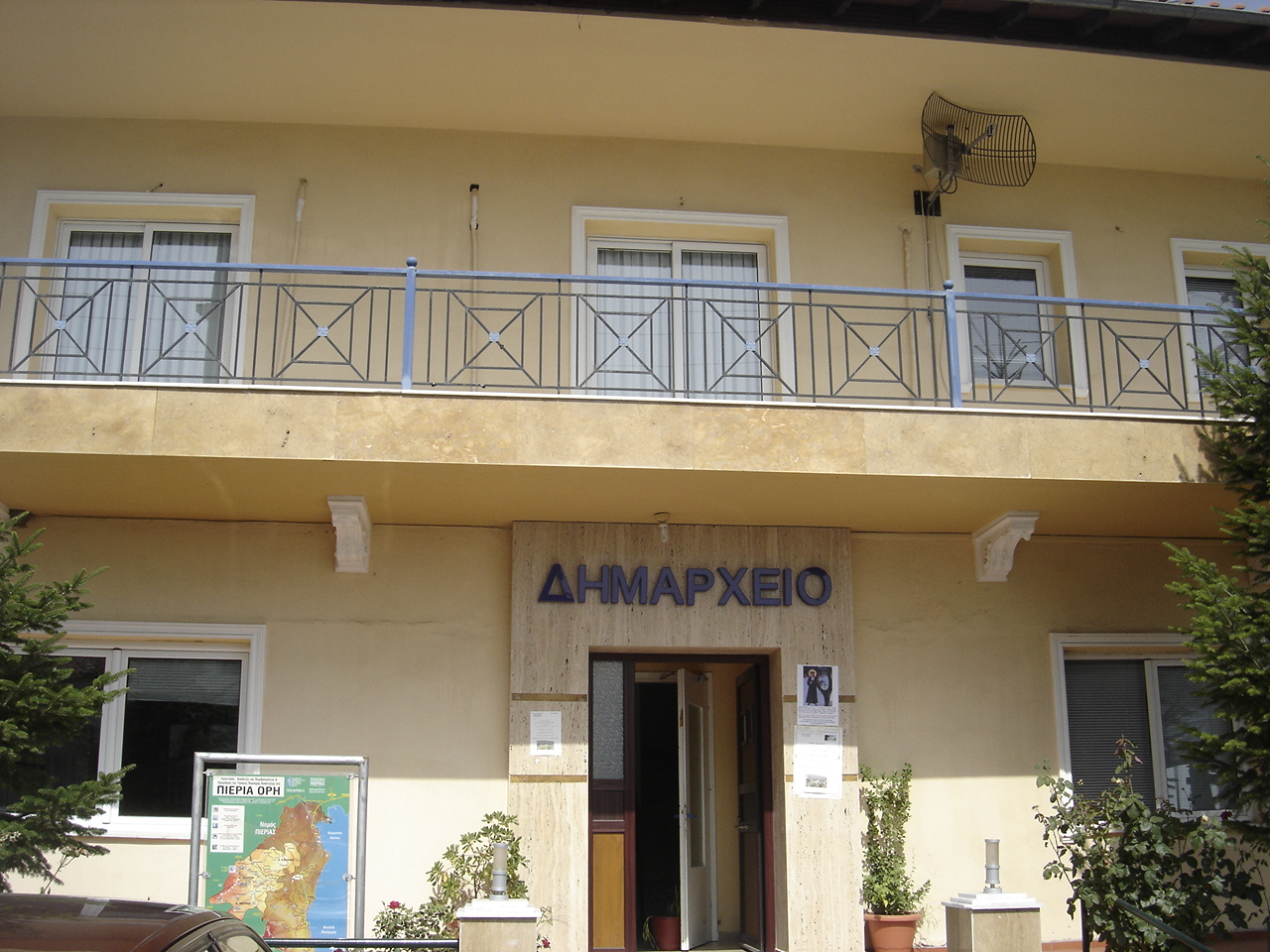 The city hall of Dimos Petras in Kato Milia.